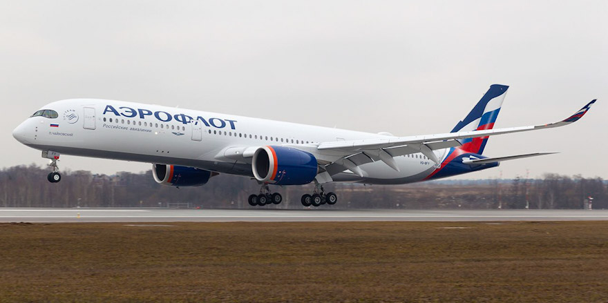 Aeroflot's Airbus A350-900 (VQ-BFY)